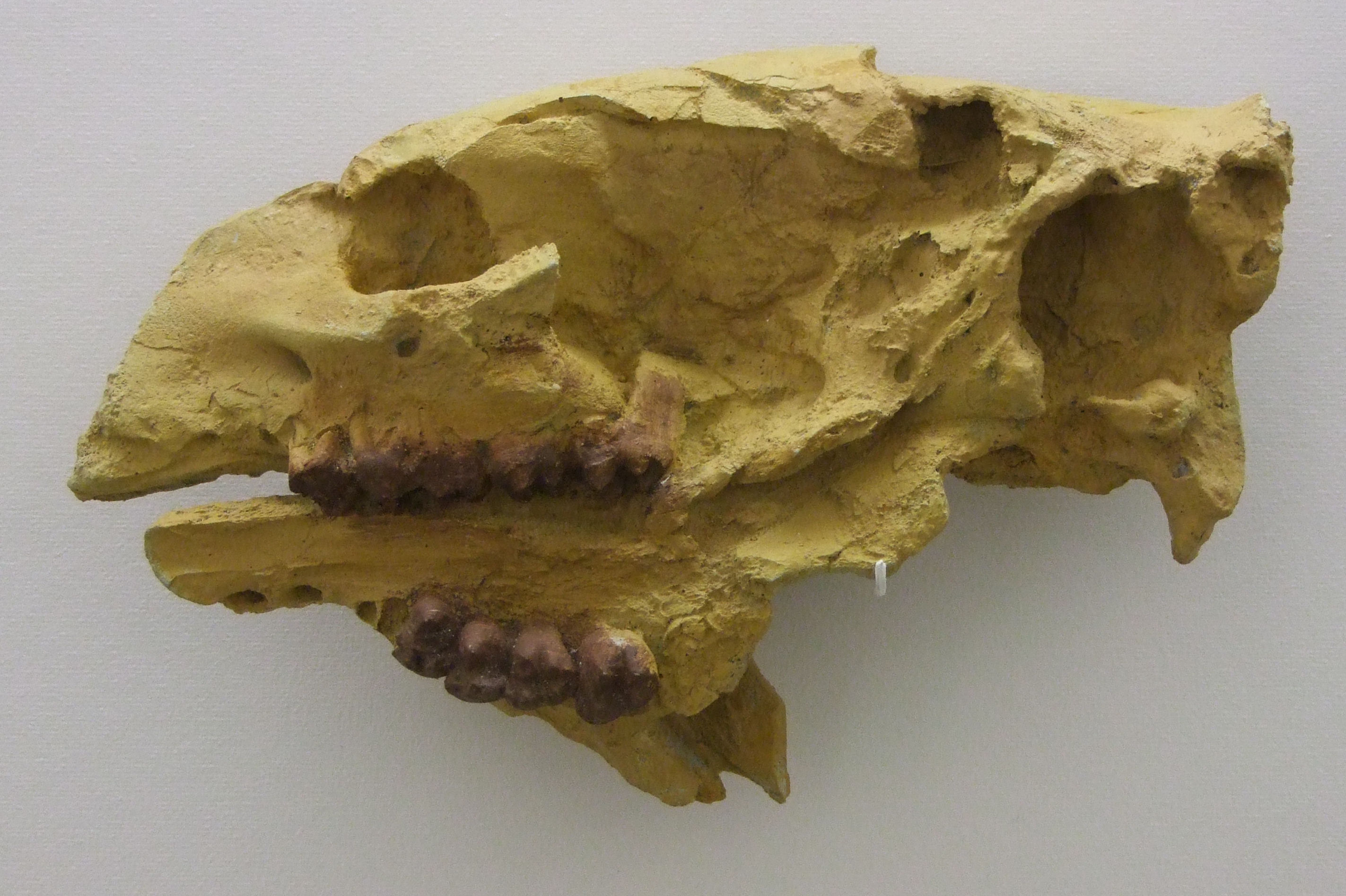 Skull of Phosphatherium, discovered 1996, photographed in the Phyletisches Museum Jena